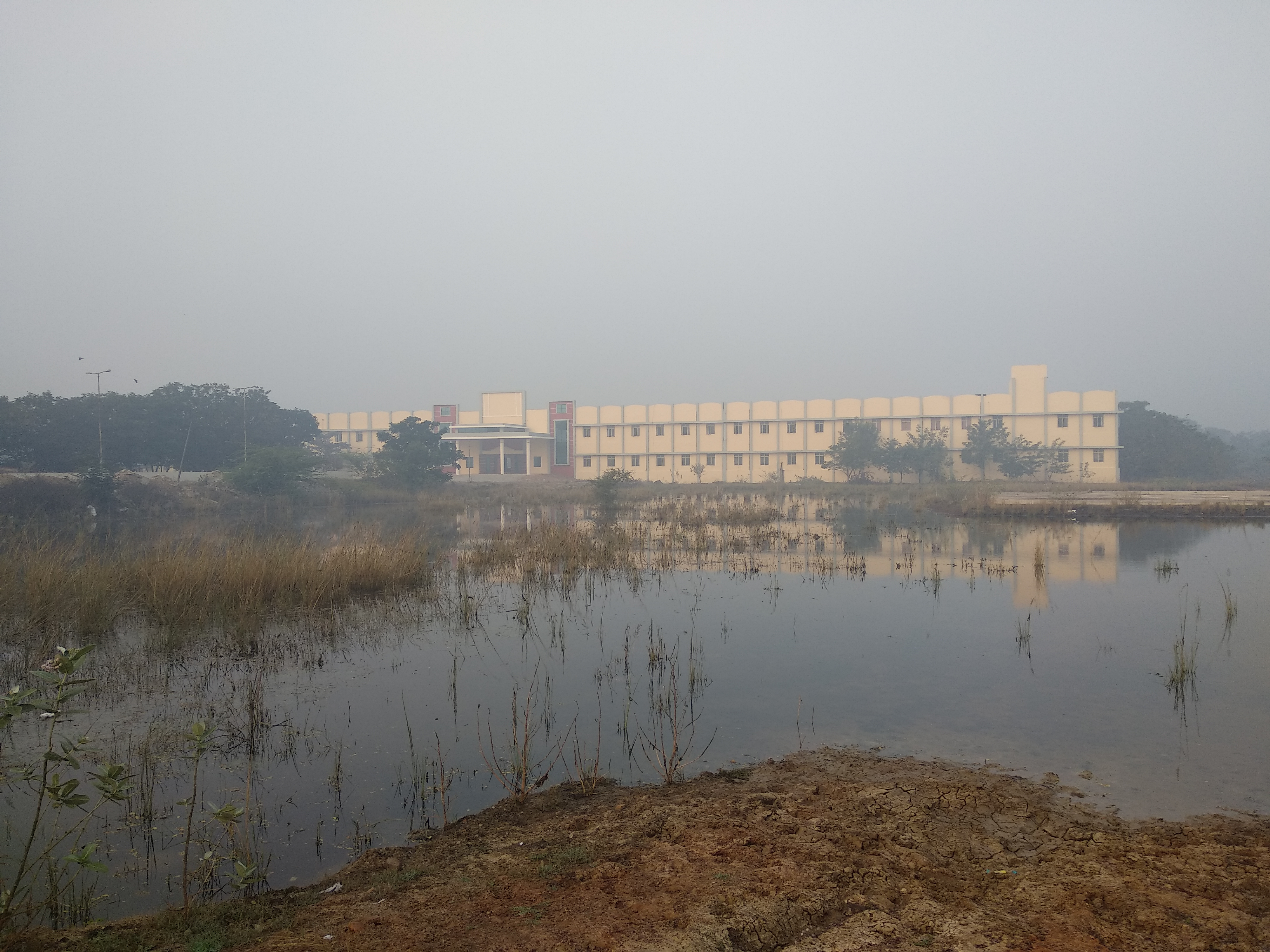 Buildings of Srikalahasteeswara Institute of Technology (SKIT) in morning fog (near river?), January 2018 in India, an engineering college in Srikalahasti, Andhra Pradesh.